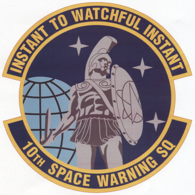 10th Space Warning Squadron emblem